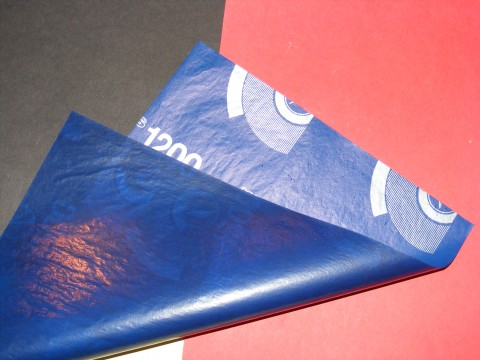 Free Photos – Carbon Paper for Handwriting More photos and details about possible copyright or licensing restrictions here: Full Size Up to 3072 x 2304 pixels Information Regarding Copyright